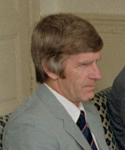 New Zealand Minister of Foreign Affairs Warren Cooper meeting Secretary of Defense Caspar W. Weinberger in Pentagon briefing room 3E912.